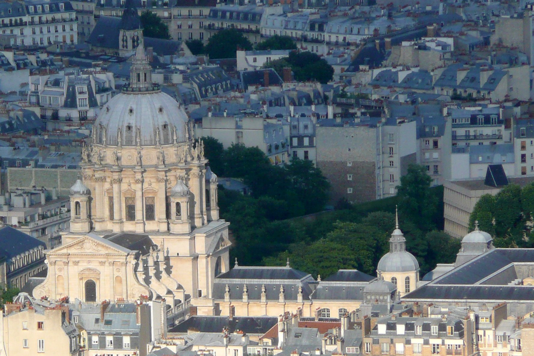 Church of the Val de Grâce, Paris, 5th district, France from the summit of the Montparnasse Tower